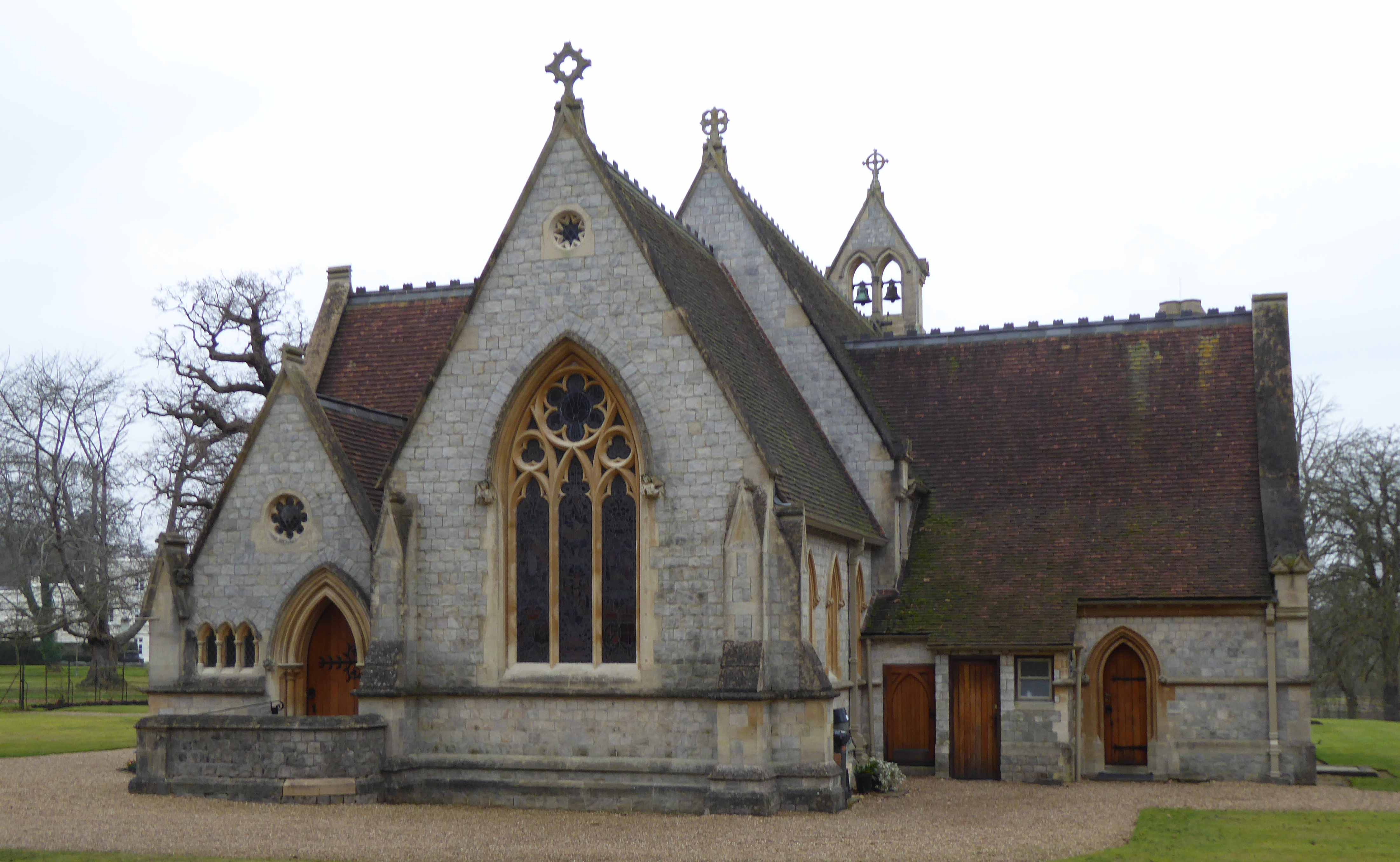 Royal Chapel of All Saints or Queen Victoria's Chapel, in the grounds of the Royal Lodge in Windsor Great Park, Berkshire, England, seen from the east